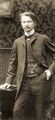 Polish writer, translator, journalist and social worker.